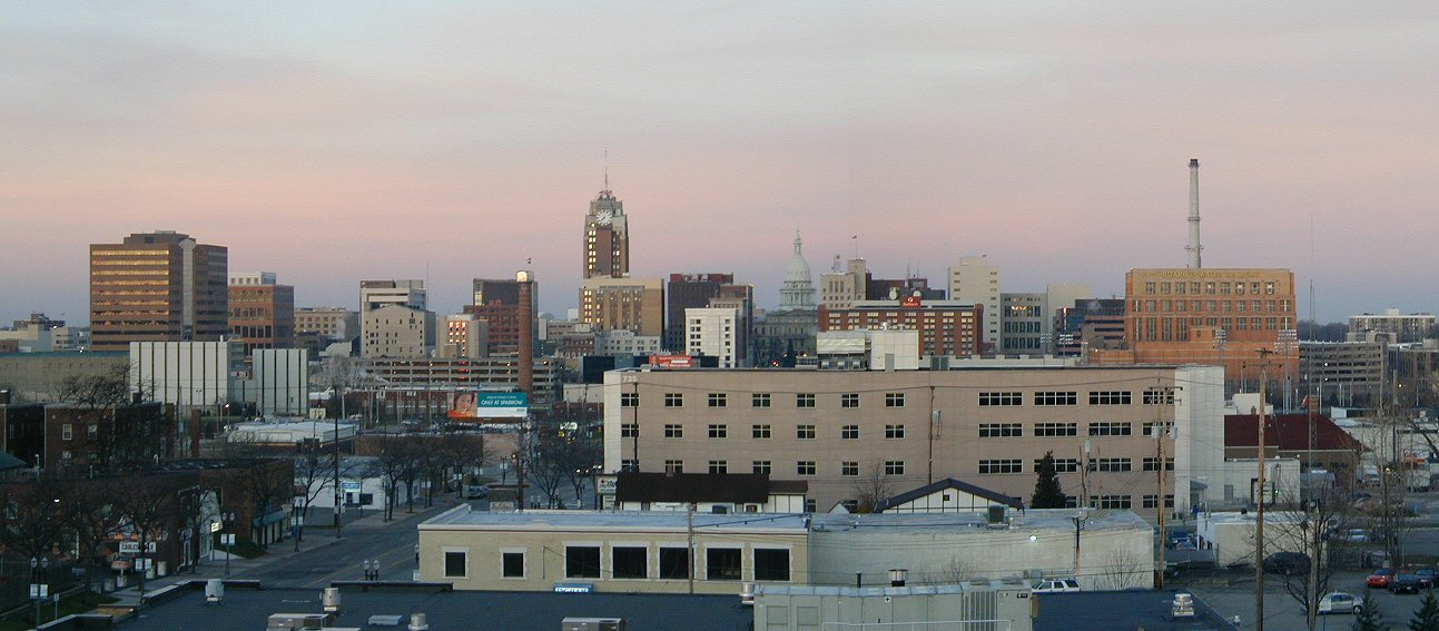 Lansing (MI) skyline as seen from the east.